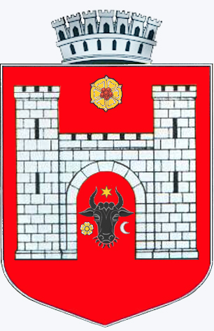 Interwar coat of arms of the town of Cernăuți, Kingdom of Romania